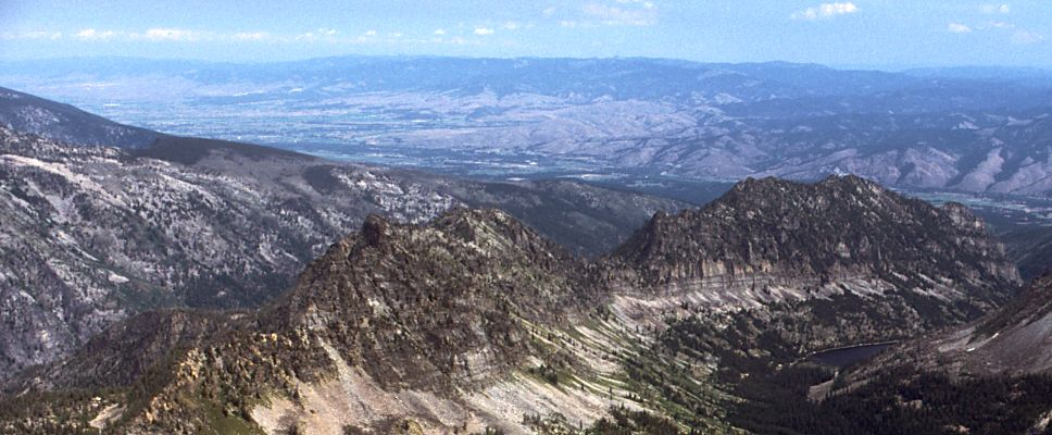 The Bitterroot Valley in Montana, looking northeast from the summit of El Capitan peak in the Bitterroot Mountains. Visible at the lower right is the upper portion of Como Lake.